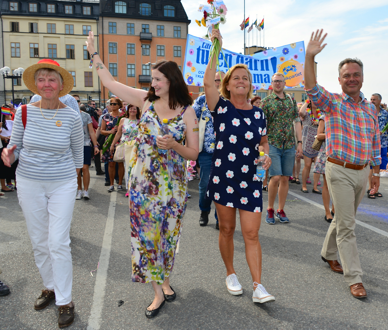 Liberal People's Party in the final Pride Parade during Stockholm Pride in 2014. From left: Barbro Westerholm, Birgitta Ohlsson, Maria Arnholm, Jan Björklund (party leader).